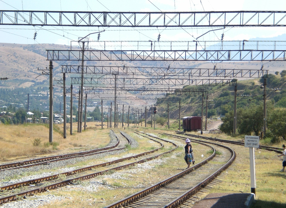 Hojikent RailRoad Station